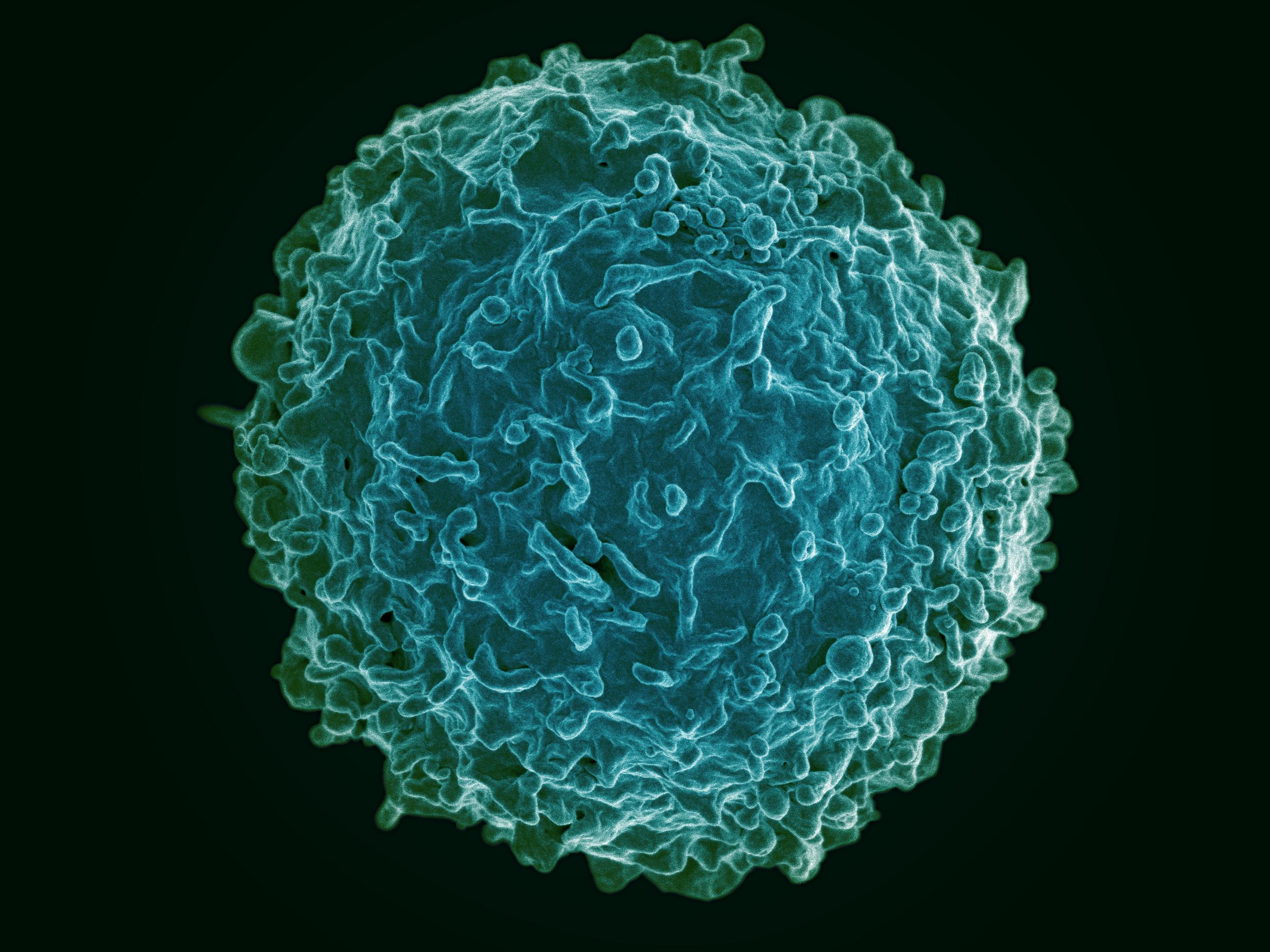 Colorized scanning electron micrograph of a B cell from a human donor. Credit: NIAID